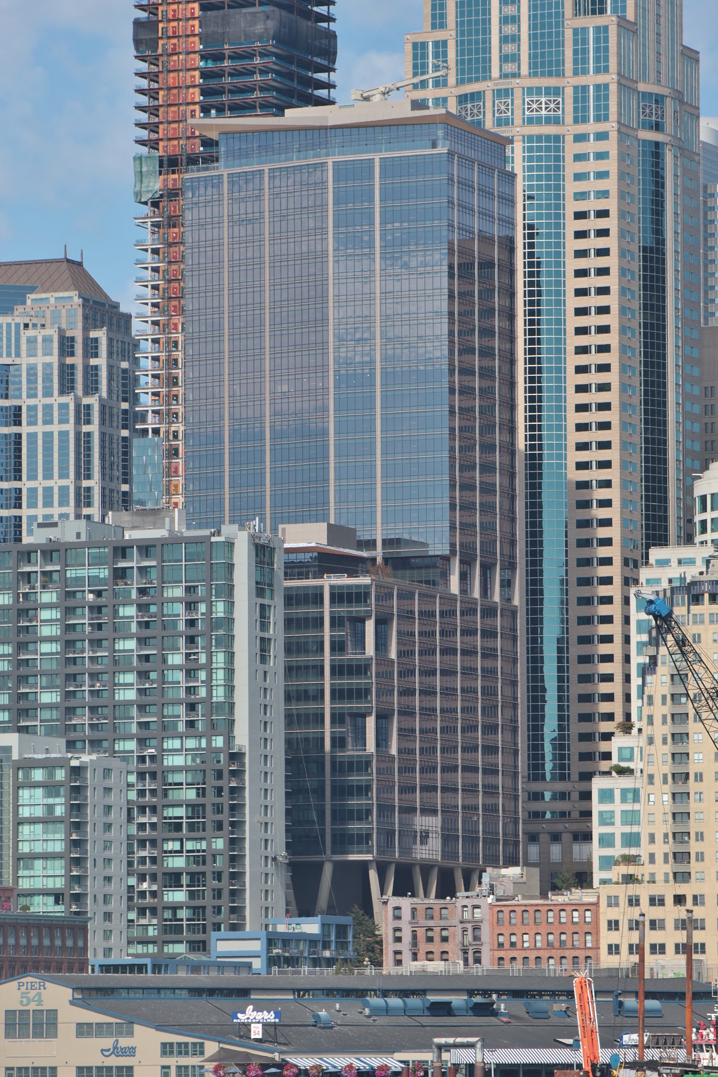 Qualtrics Tower (2+U), a high-rise office building in Seattle, Washington, as seen from a ferry on Elliott Bay.